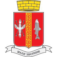 MIddle coat of arms of Mali Zvornik